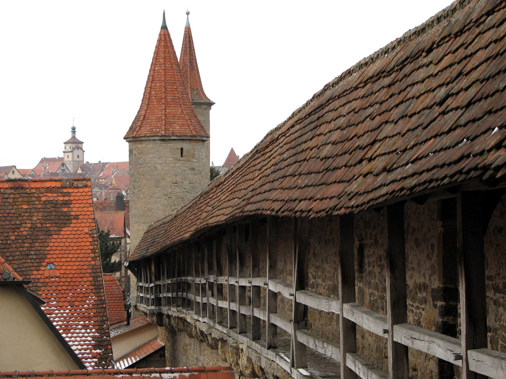 Personnal picture.No copyright